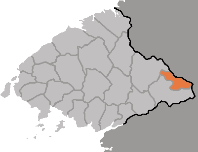 Map of Hyangsan, Pyongan-pukto, DPRK, 2006